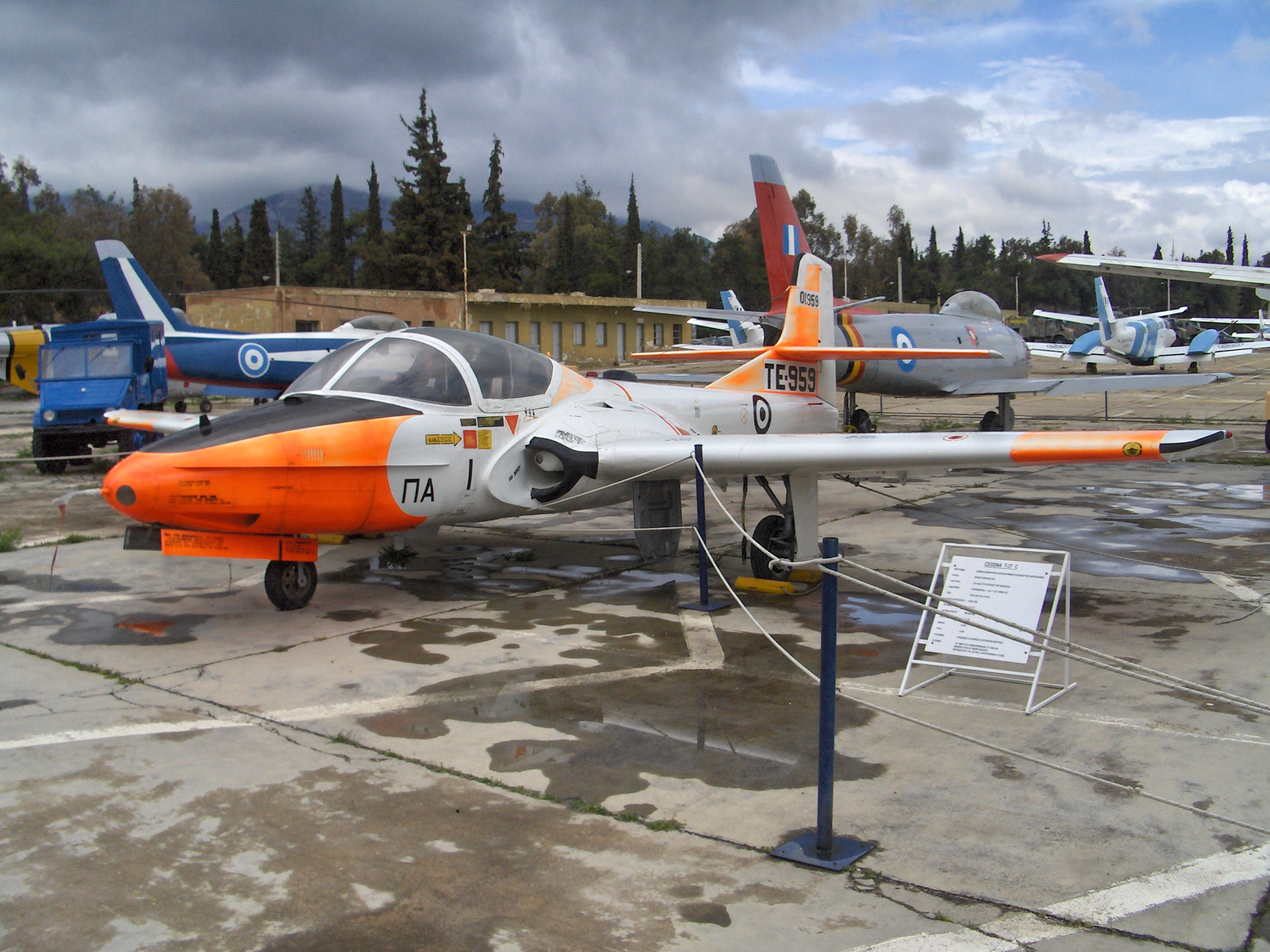 Exhibit at the Hellenic Air Force Museum at Dekelia (Tatoi), Athens, Greece. T-37 της 361 ΜΒΕ.